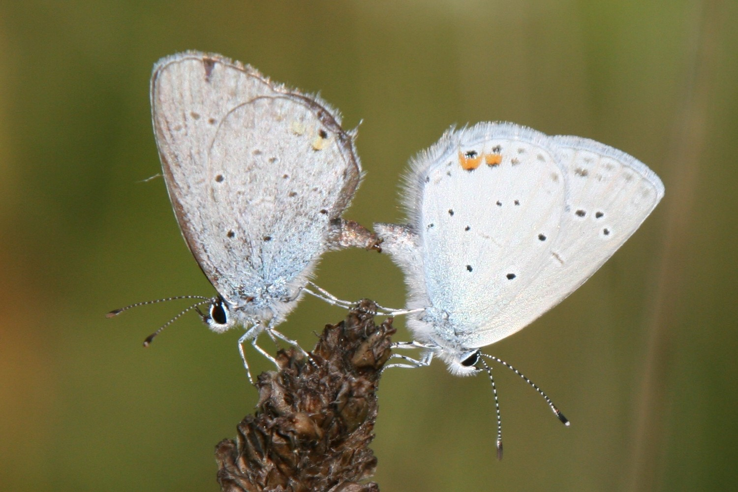 A couple of short-tailed blue butterflies (Cupido argiades), photographed in Weinsberg